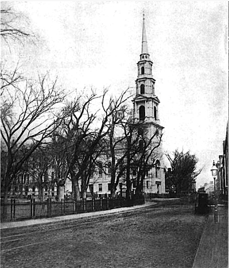 Park St. Church, Boston